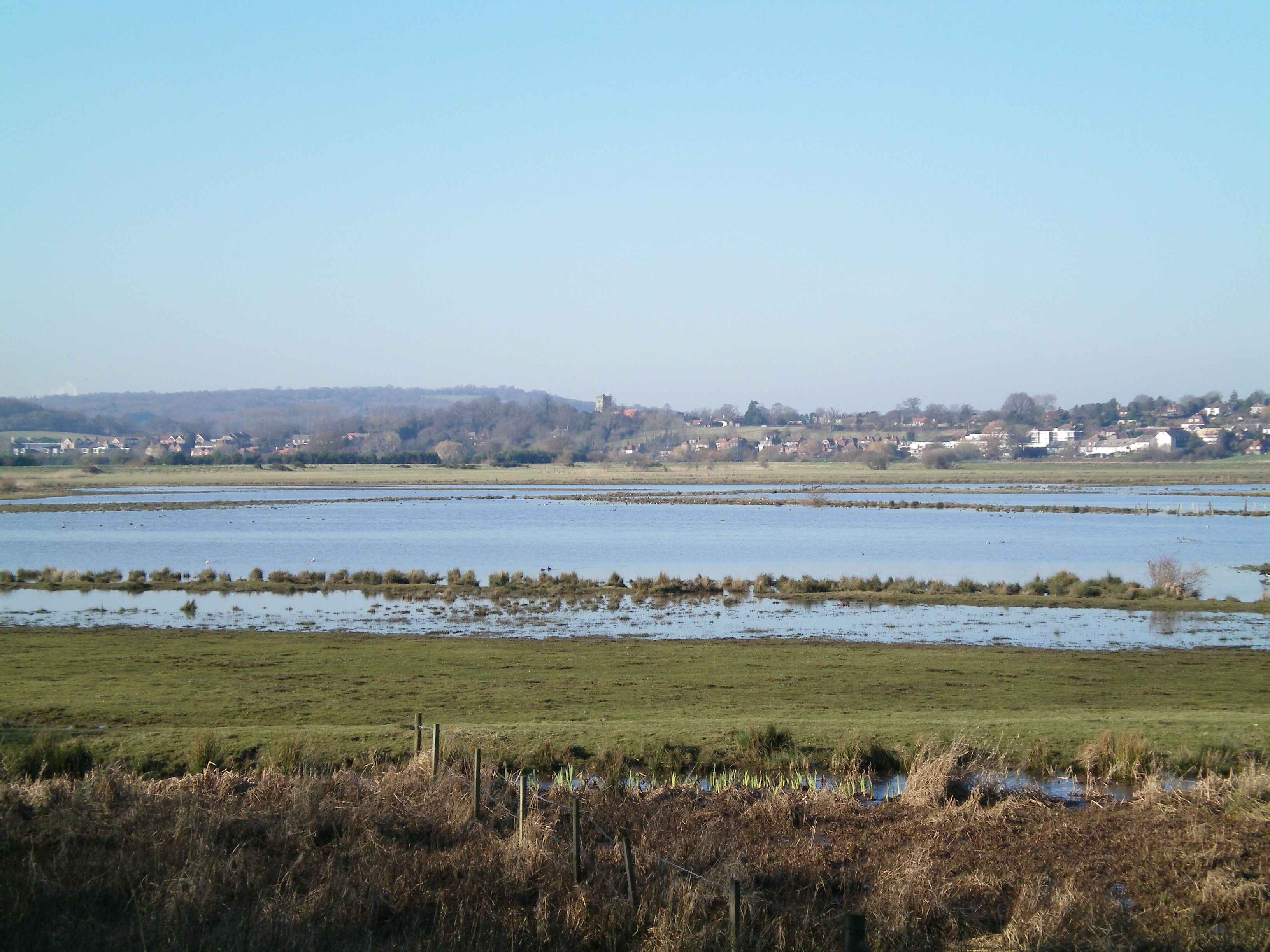 Pulborough Brooks RSPB nature reserve.